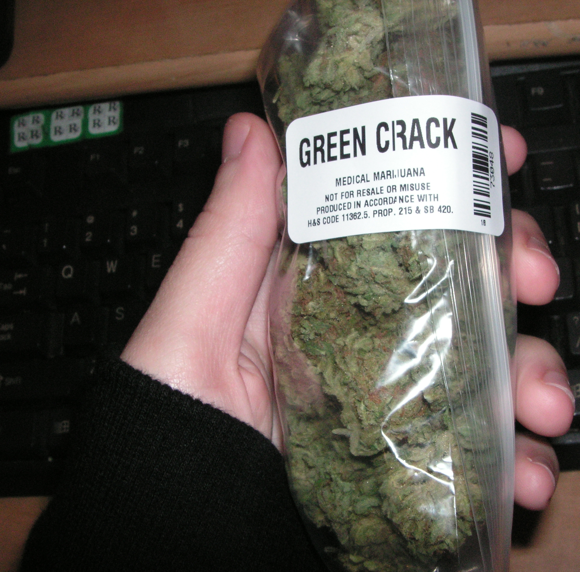 An ounce of Green Crack bought from a dispensary in California.